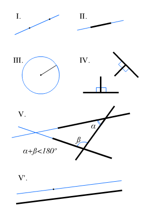 The Euclid's postulates, plus the usual substitution of Euclid's fifth postulate.